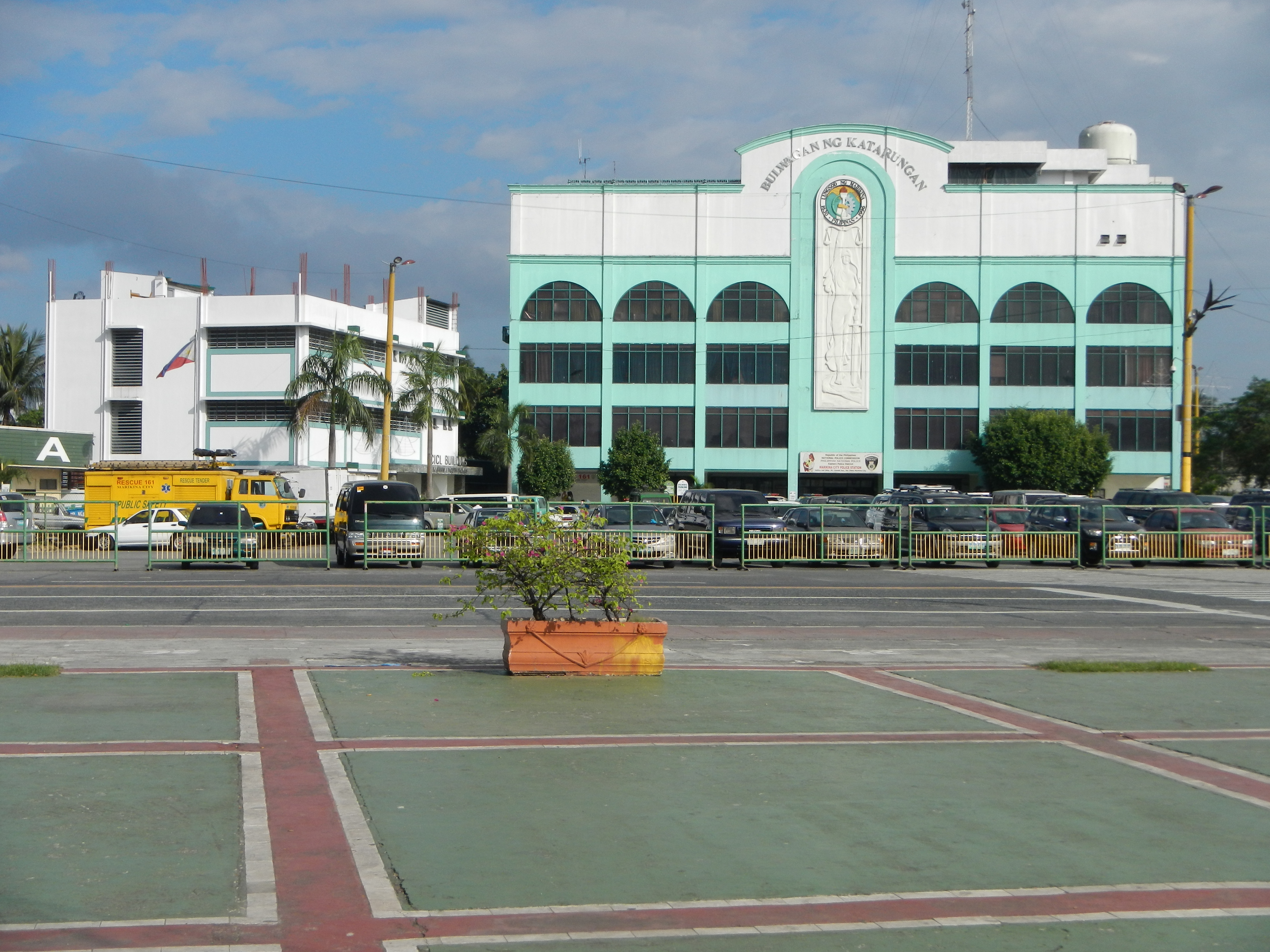 Upload Wizard photos of the - Marikina City[1] Hall Complex and Compound showing the busts, memorials of the former Mayors, and 2 biggest shoes in the Plaza.